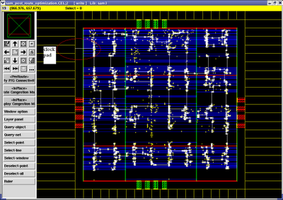 After CTS